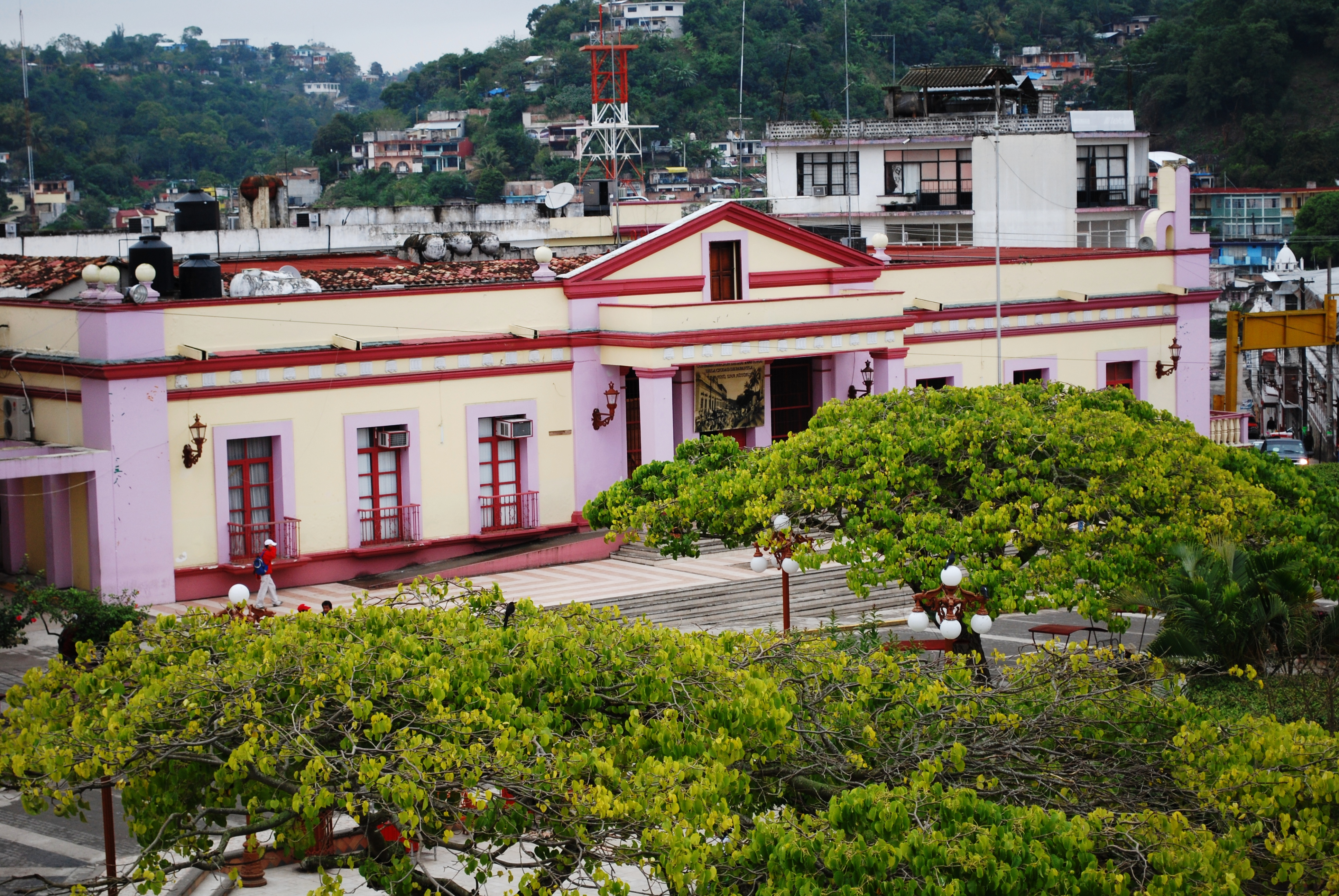 Municipal Palace of Papantla, Veracruz Mexico